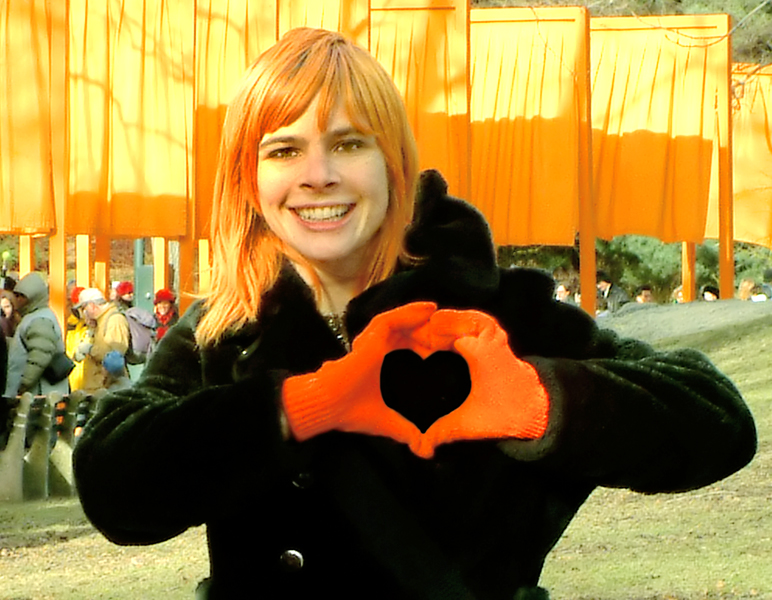 Bonfire Madigan Shive in Central Park NYC - February 20, 2005 - Photographed by Anthony Pepitone